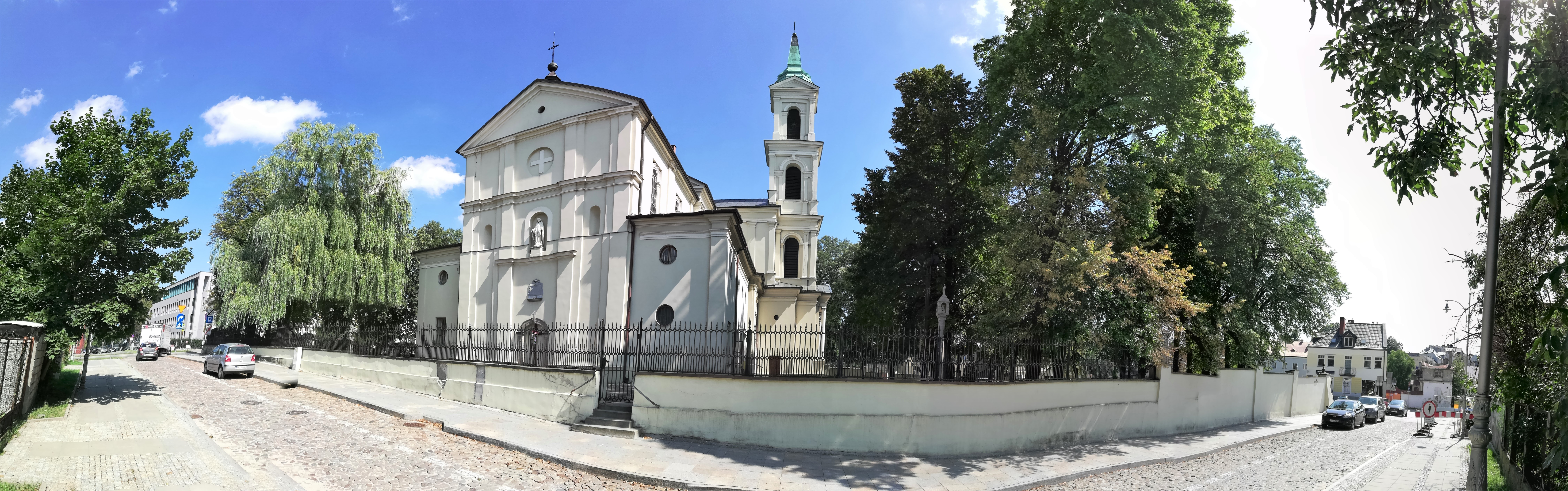 Church of St. Wojciech in Kielce - view from the west - 180 ° panorama.